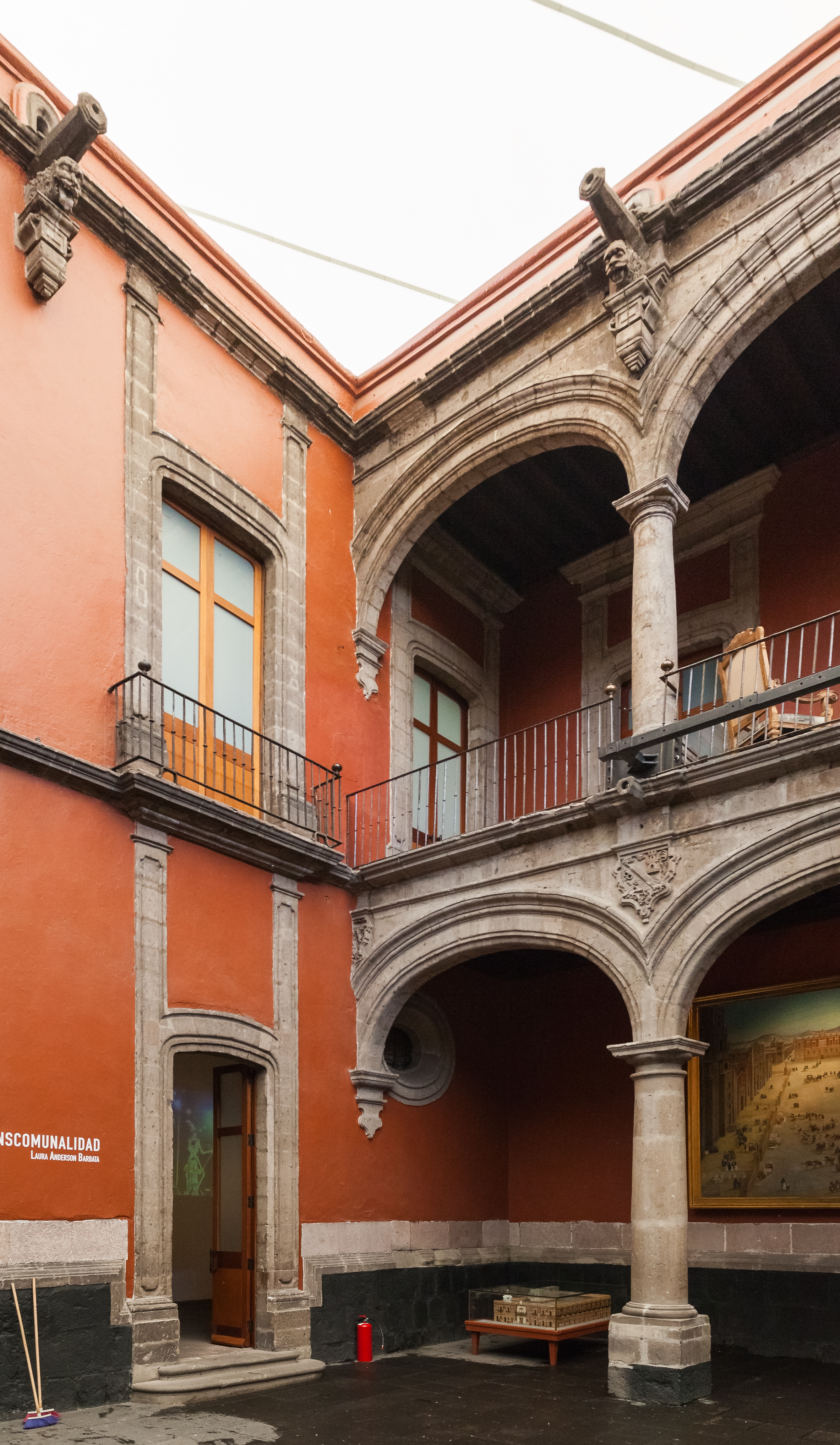 Museum of the City of Mexico, México D.F., México